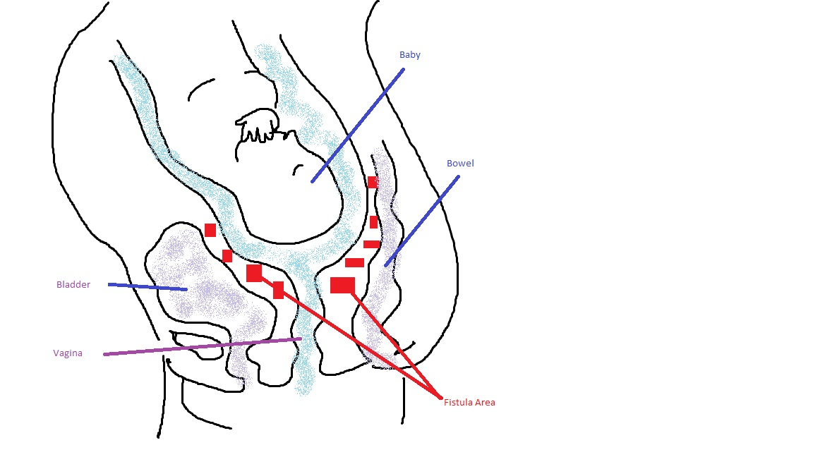 A diagram simulating the process through which an obstetric Fistula occurs, leading to a tear in the bladder and the rectum.